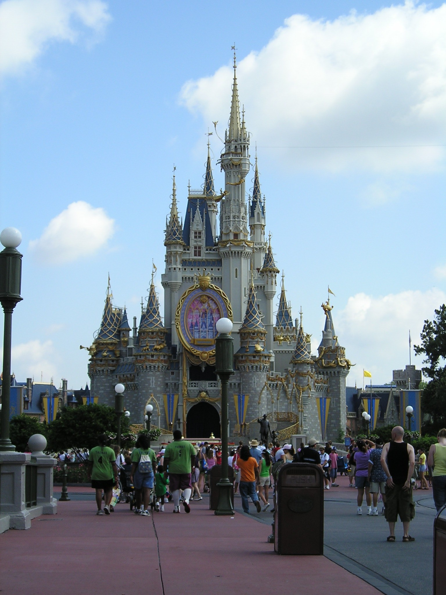 Cinderella Castle of the Magic Kingdom